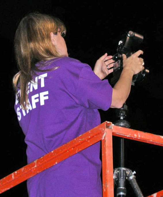 A Staff Photographer at a Relay for Life rally is caught chimping red-handed.